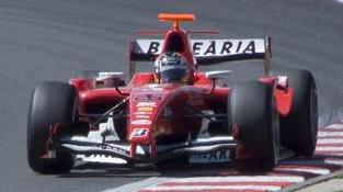 Adrián Vallés driving for BCN Competicion at the Circuit de Nevers Magny-Cours round of the 2008 GP2 Series season.